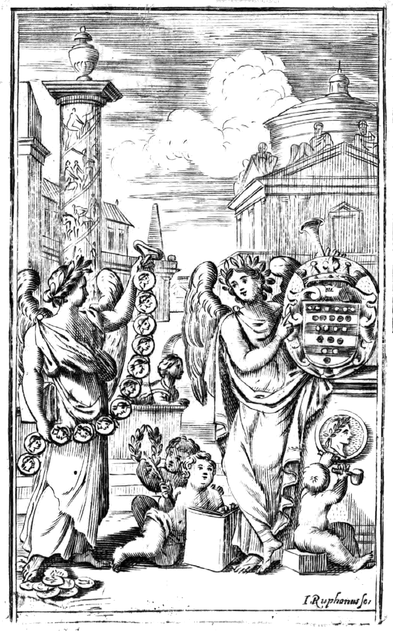 Giuseppe Scolari - Olimpiade - picture of the libretto - Venice 1747